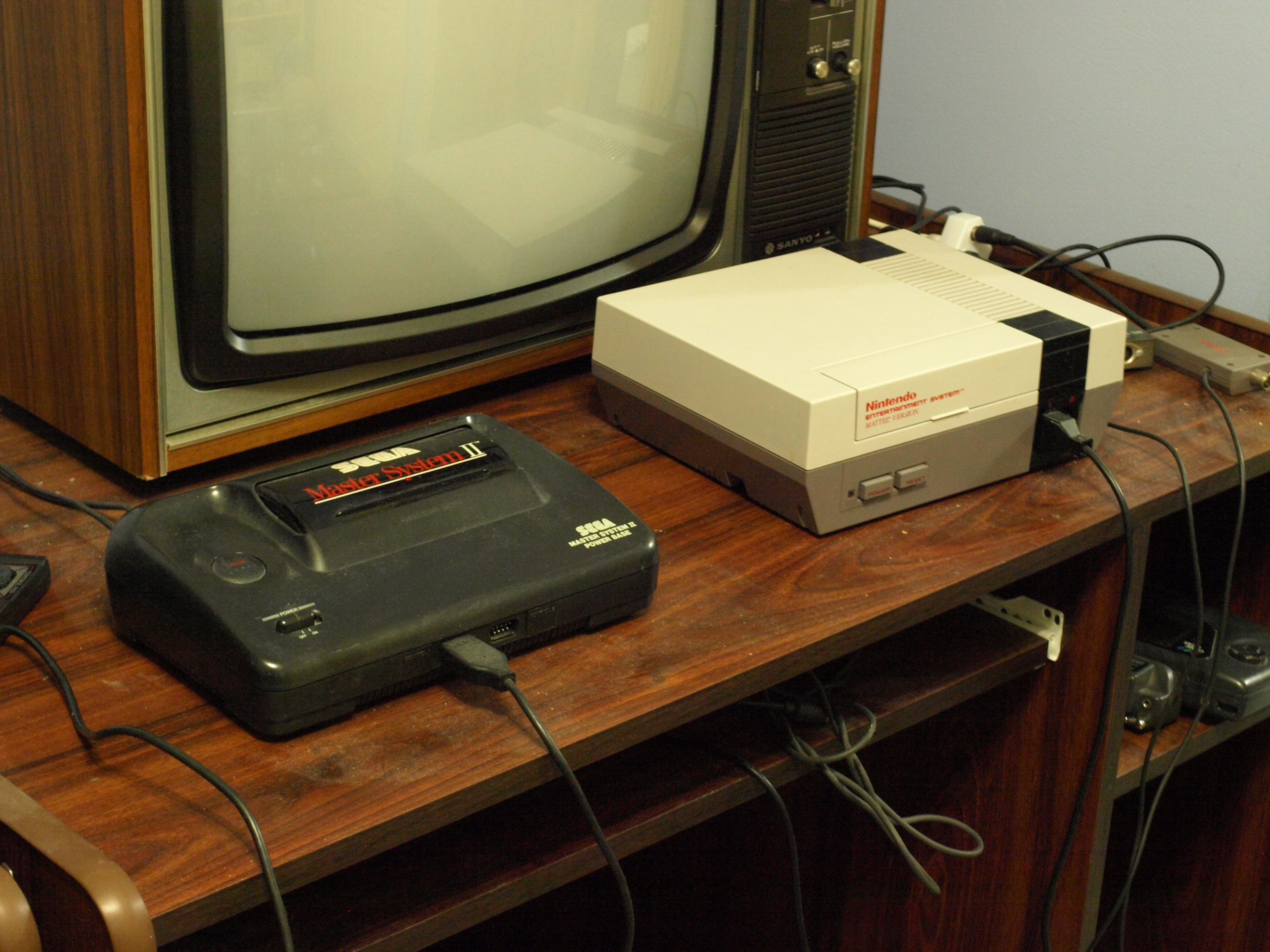 A SEGA Master System and a Nintendo Entertainment System.